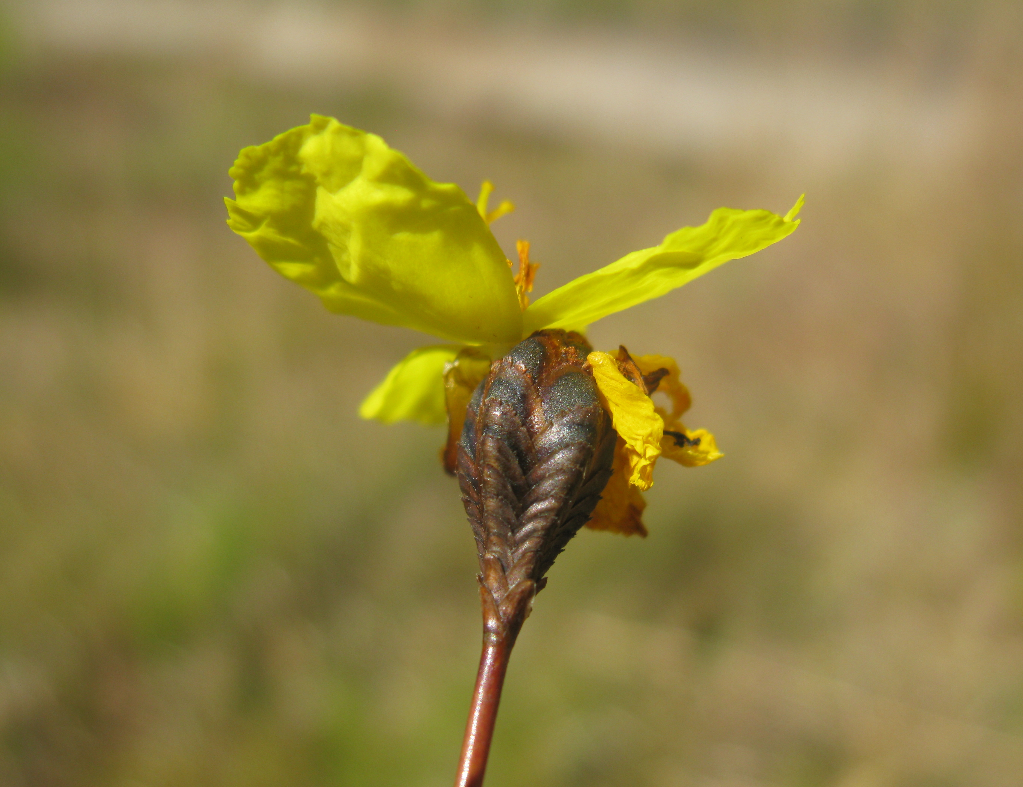 Native, warm season, perennial, Tufted herb 60-90 cm tall. Leaves are subterete, 20–60 cm long and 0.5–1 mm diam.; sheathing bases are 5–11 cm long, red to reddish tawny brown or black and often shiny. Flowerheads are obovoid and 9–13 mm long. Outer tepals 3, are brown to blackish brown with golden brown wings. Inner tepals 3, are petaloid and yellow; margins entire. Flowering is from late spring to summer. Found chiefly in coastal districts and on the ranges. Grows in damp or swampy areas, often in heath.